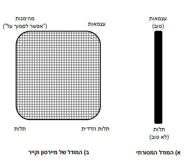 Model of interdependence according to Meyerson & Kerr, 1987